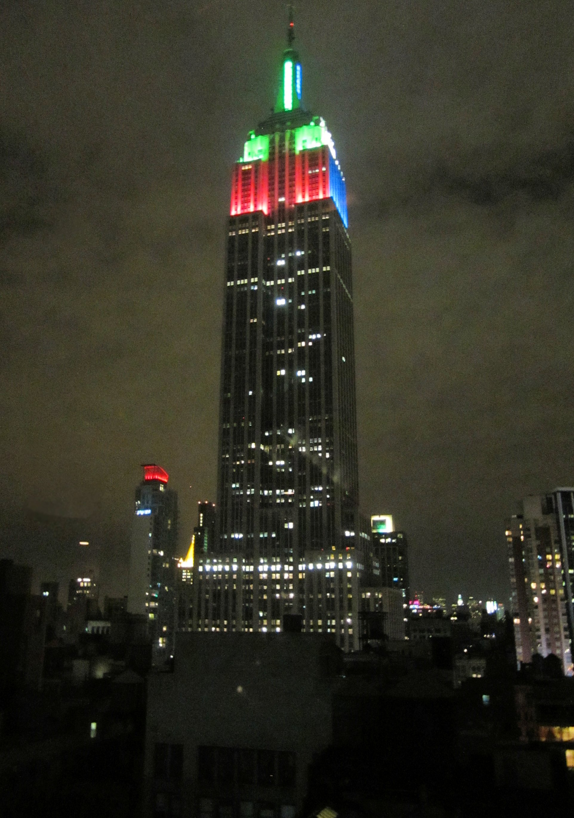 Empire State Building in Christmas Lights.